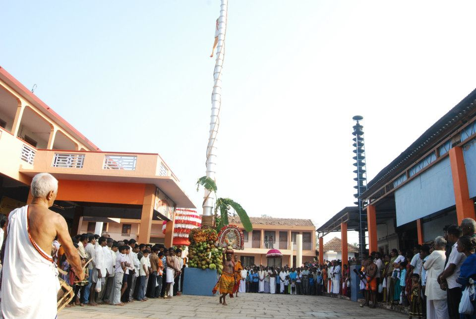 Polali Shri Rajarajeshwari bali